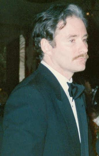 Kevin Kline at the Academy Awards (cropped)